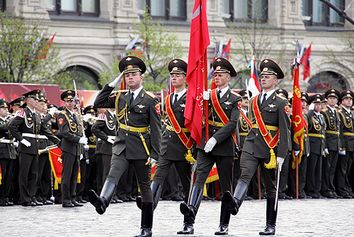 RED SQUARE, MOSCOW. Military parade in honour of the 60th anniversary of Victory in the Great Patriotic War.